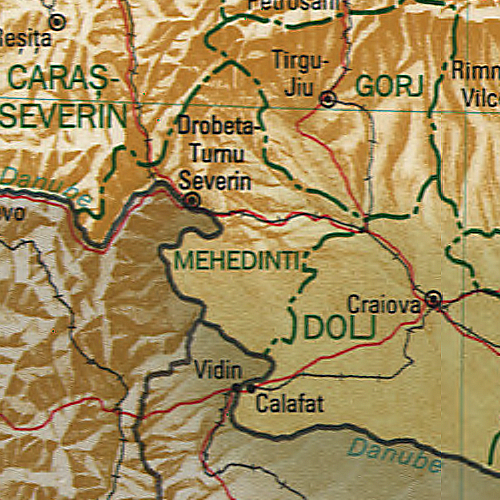 Map of Mehedinți County, Romania.